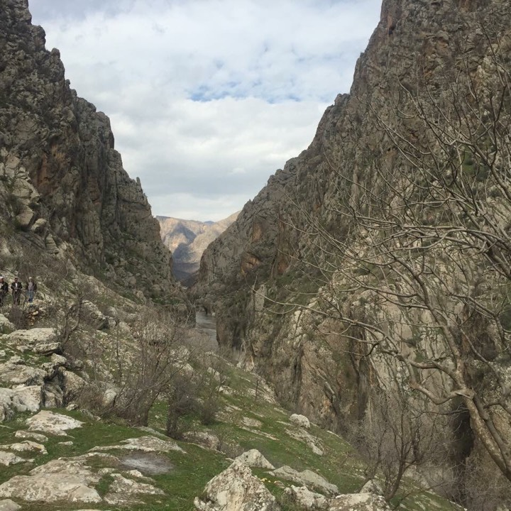 Rashava valley, Nihel area of Kurdistan region